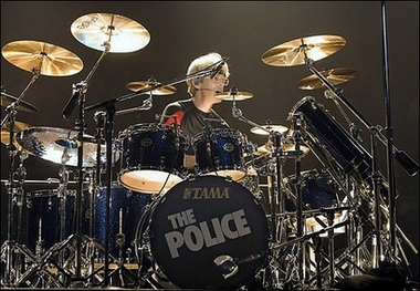 Stewart Copeland in a live show in Marseille.